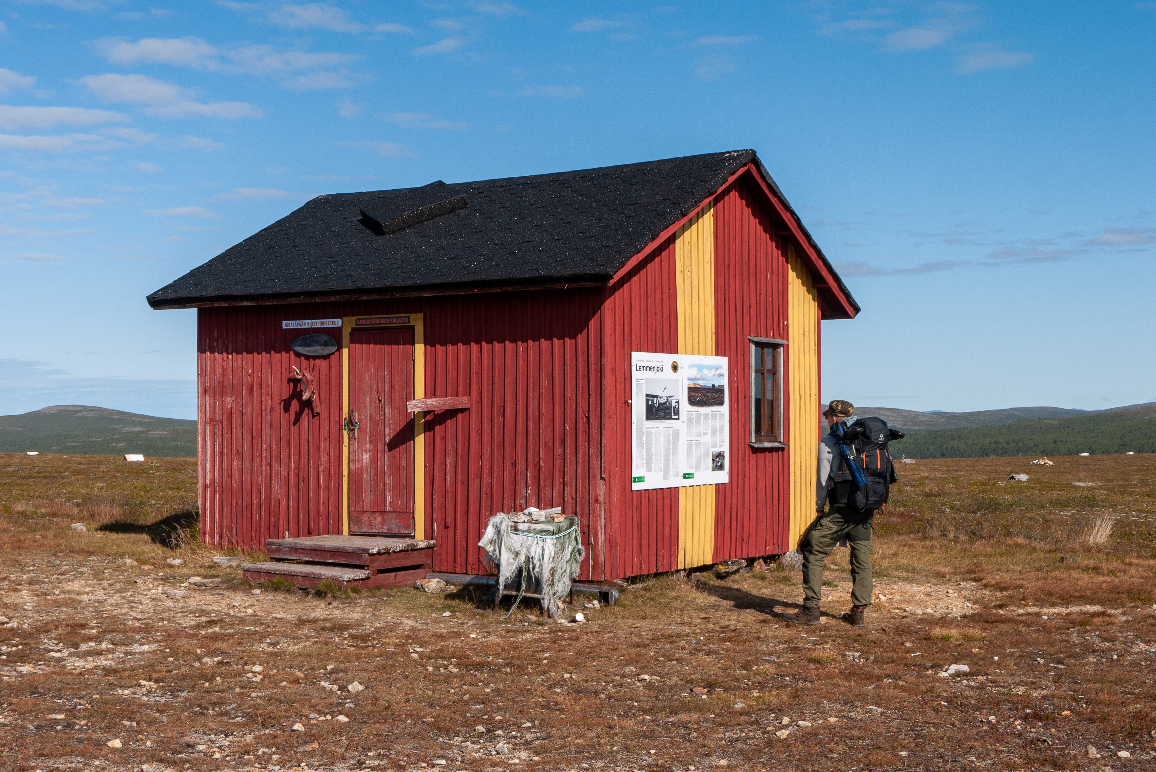 Karhu-Korhonen library in Lemmenjoki National Park in Inari, Finland. This small library is located in a former airstrip service building on top of a fell and is probably the most remote library in Finland.